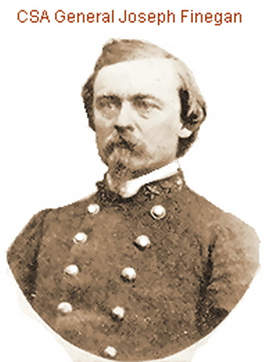 duplicated file CSA_Gen_Joseph_Finegan-02.jpg to use on FR WIKIPEDIA